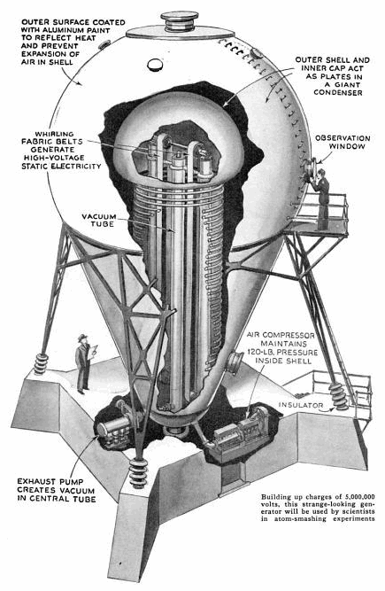 Cutaway drawing of the Westinghouse Atom Smasher, a Van de Graaff generator built in 1937 at the Westinghouse Corporation research center at Forest Hills, Pennsylvania, USA. It consists of a Van de Graaff generator which generates 5 million volts (MV) on its dome shaped electrode, which is used to accelerate charged subatomic particles through an evacuated tube parallel to the generator's charge carrying belt. Since open-air Van de Graaff machines are limited to about 1 MV by leakage of current from its electrode by arcs and corona discharge, the machine is enclosed in an onion-shaped air tank pressurized to a pressure of 120 pounds per square inch, which allows it to reach a voltage of 5 MV.